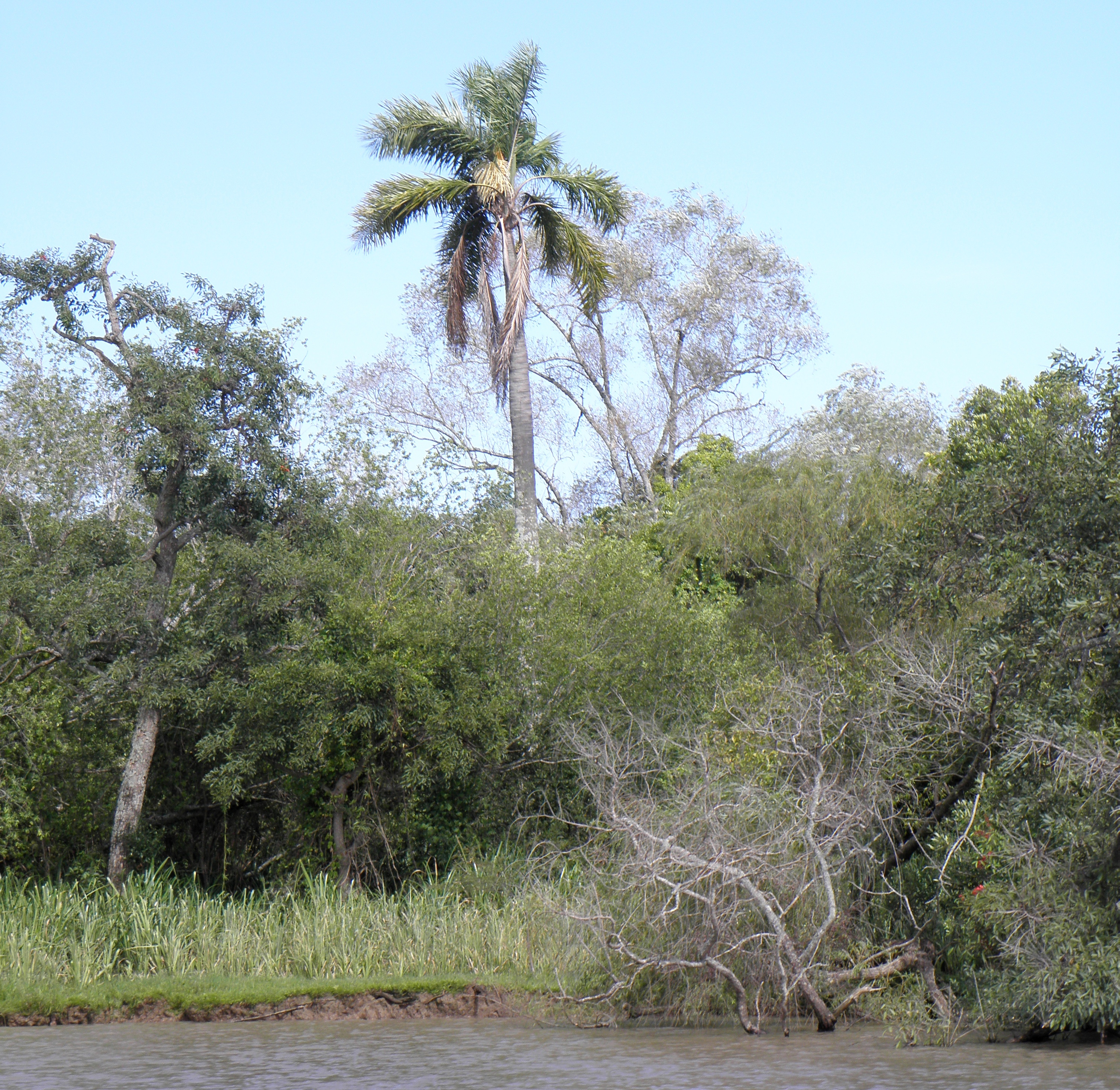 Queen Palm or Cocos Palm (Syagrus romanzoffiana) in the Paraná Delta, Argentina.